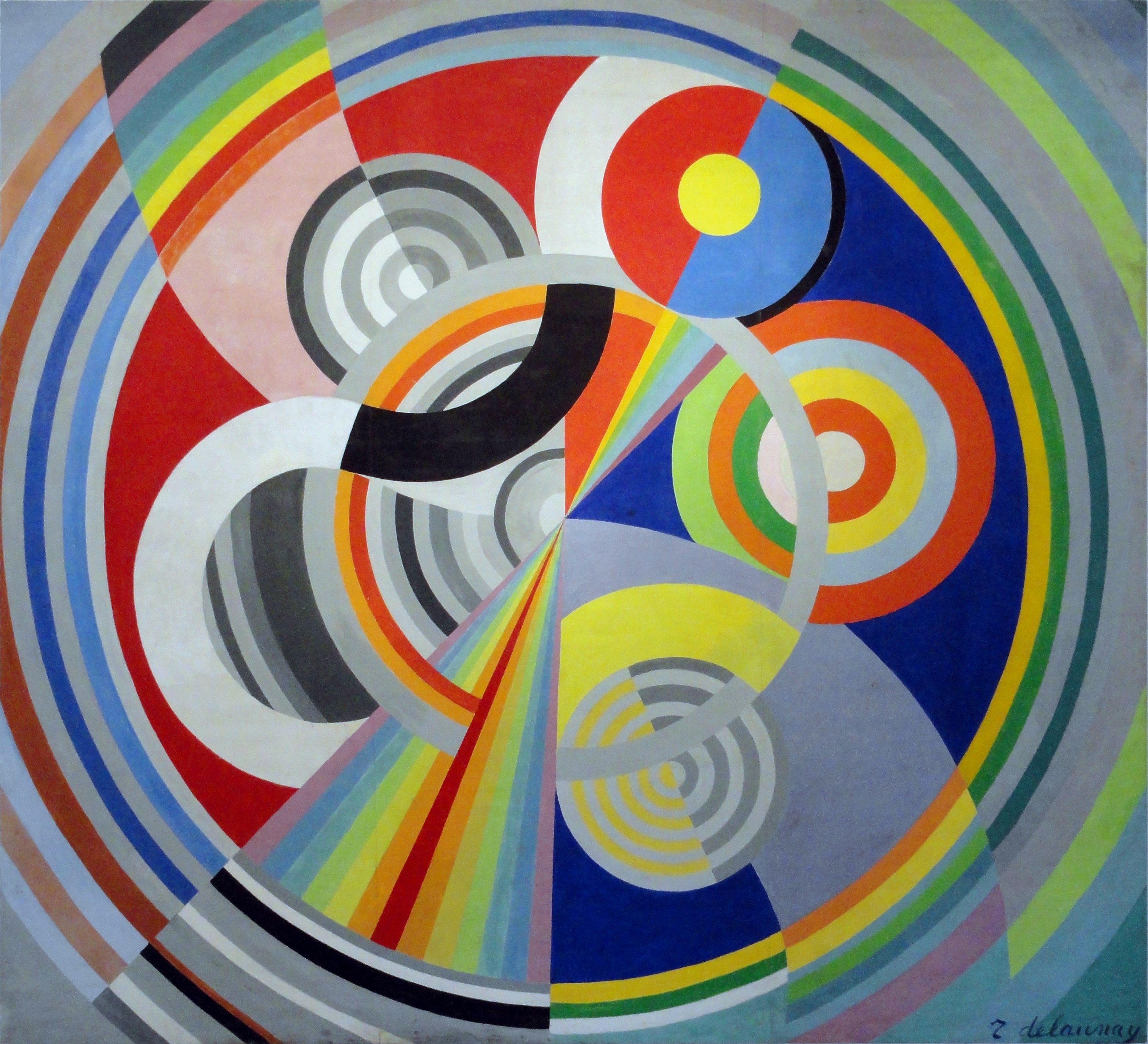 Mural decoration for the Salon des Tuileries